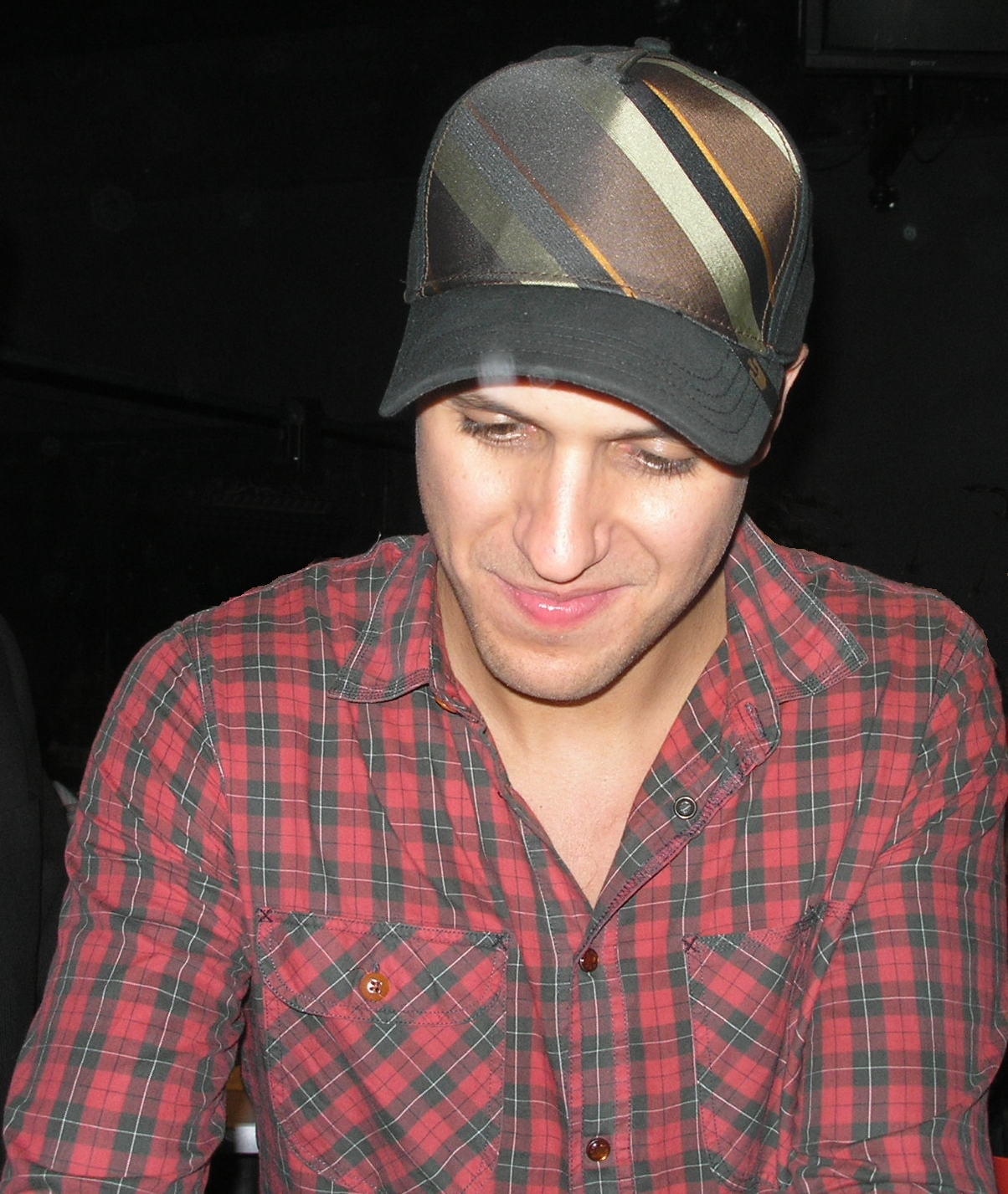 Milow after his concert in Lyon (Transbordeur); always ready to spend time with the fans !